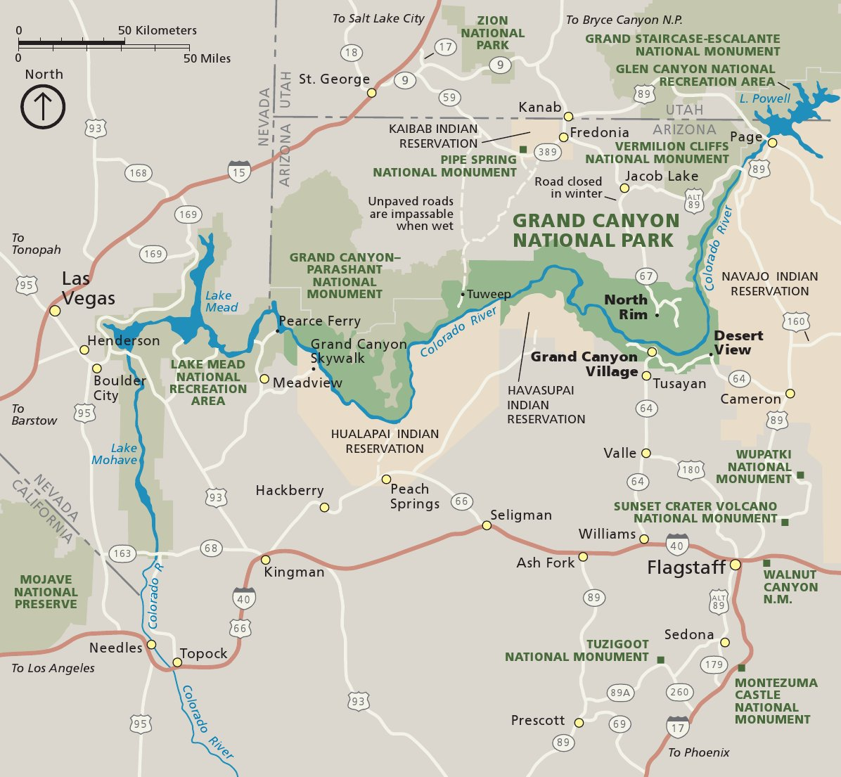 Need to zoom out? Here’s a map of roads near Grand Canyon, showing driving directions between the rims or to Las Vegas.